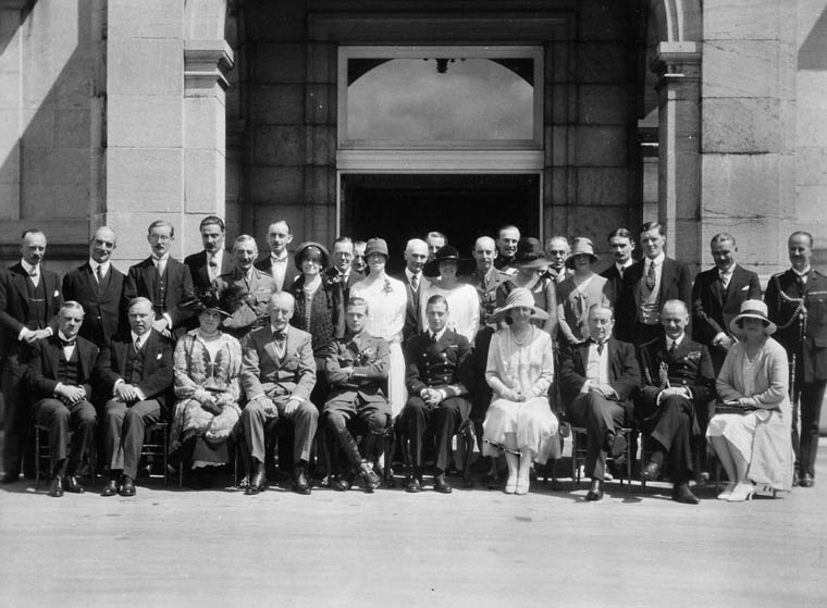 Visit of H.R.H. the Prince of Wales to Rideau Hall, Ottawa, Ont. Aug. 4, 1927. Front row (left to right: 2nd, Rt. Hon. W.L. Mackenzie King; 4th, Viscount Willingdon; 5th, H.R.H. the Prince of Wales; 6th, H.R.H. Prince George; 8th, Rt. Hon. Stanley Baldwin.